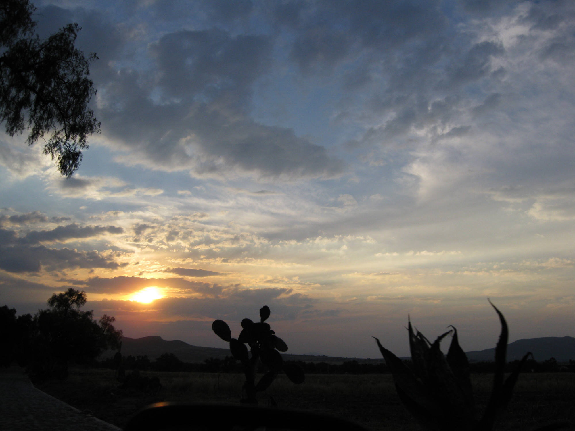 Nature near Xihuingo.